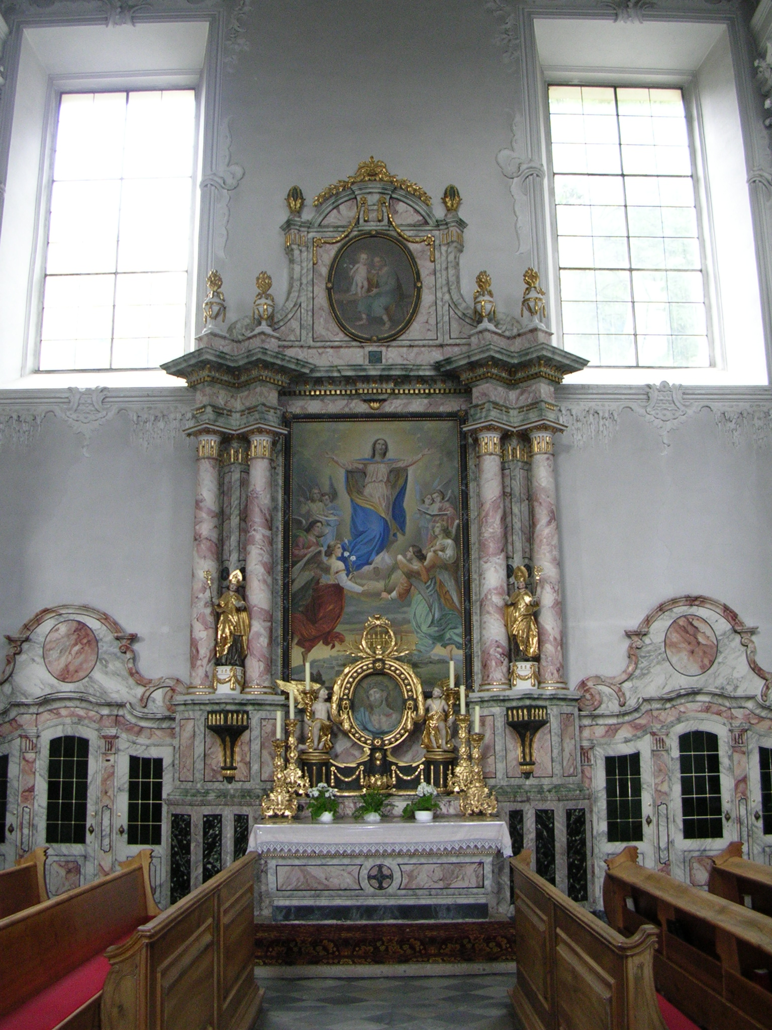 Altar in the parish church of Matrei in Osttirol